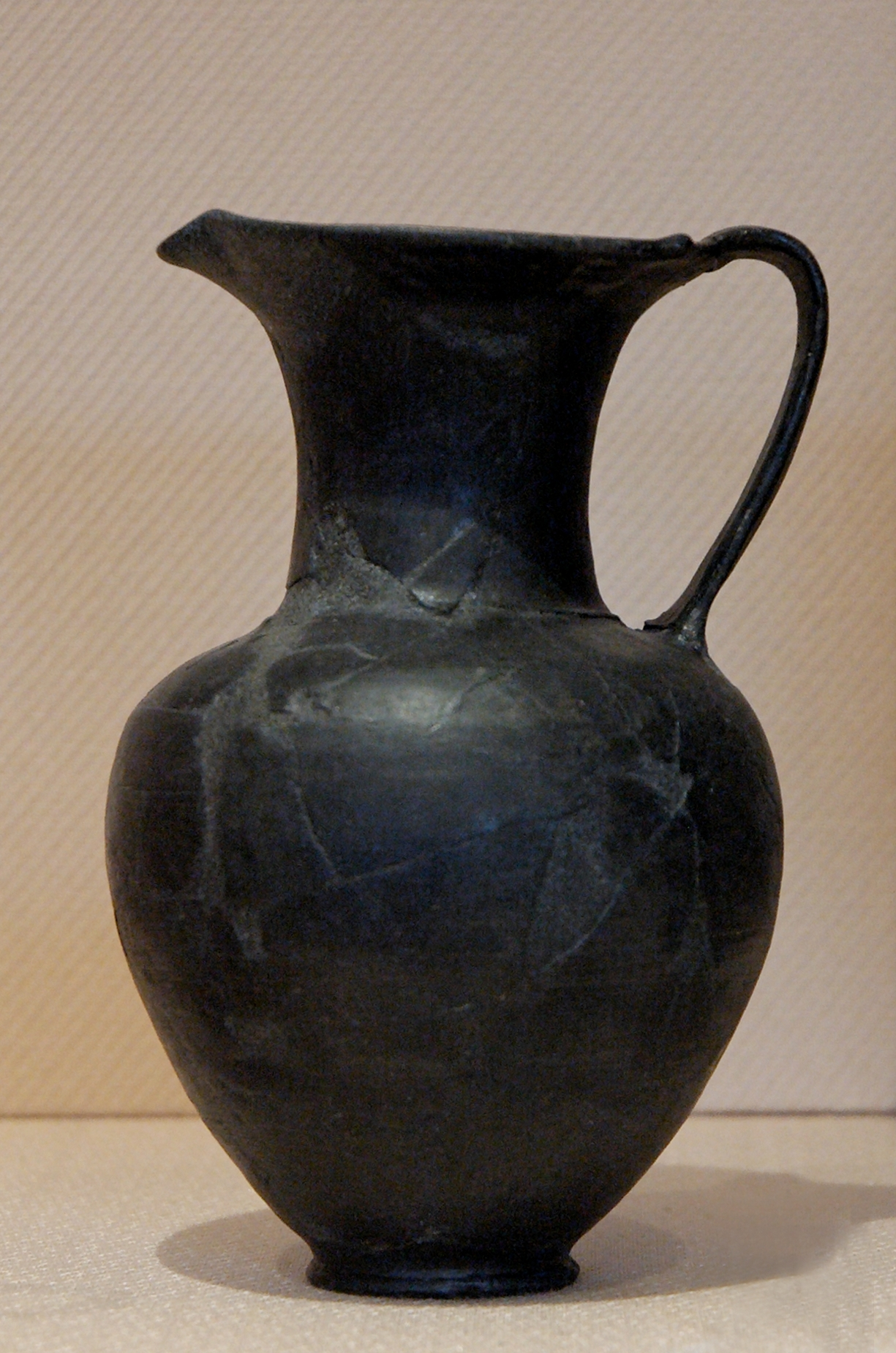 Bucchero oinochoe, 3rd or 4th Latial Period. From tomb no. 62 at the cemetary of Osteria dell'Osa, near Rome.